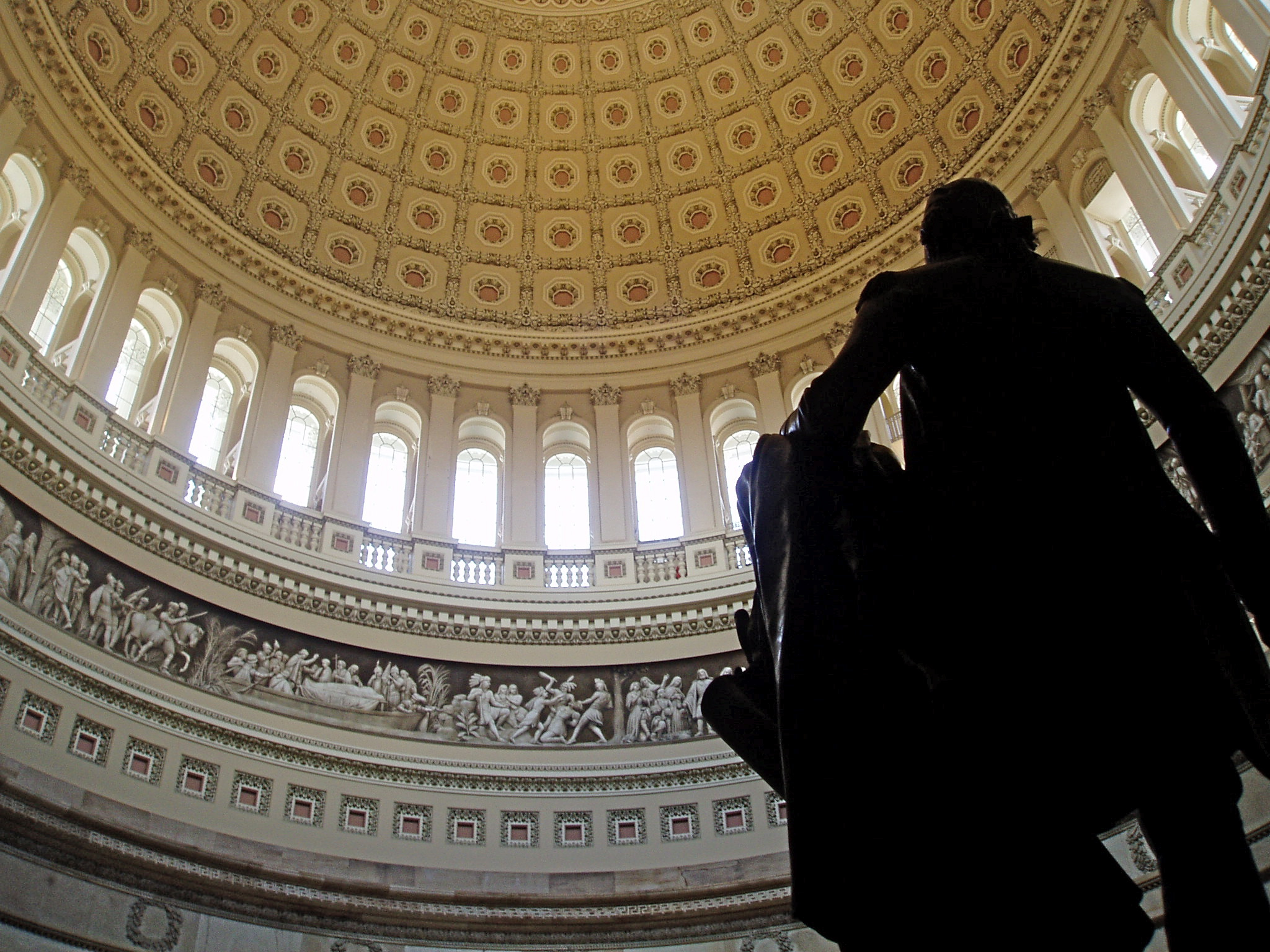 The interior of the United States Capitol rotunda taken from behind the statue of George Washington. The image captures a portion of Constantino Brumidi's Frieze of American History starting from Pizarro Going to Peru to the beginning of Landing of the Pilgrims.